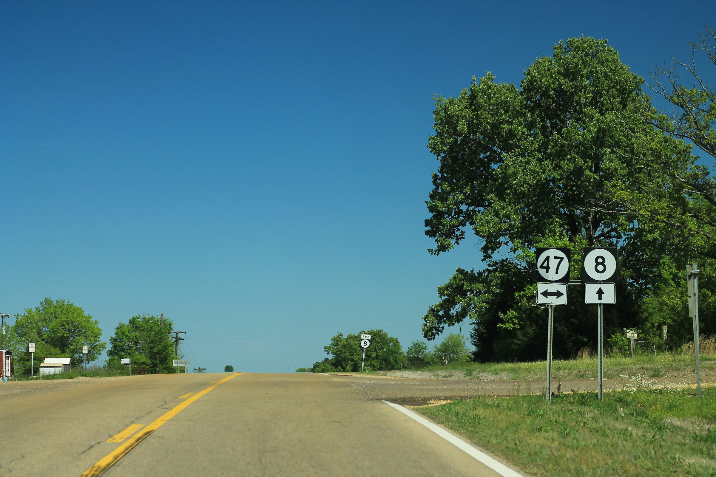 MS8 East - MS47 Signs - Trebloc